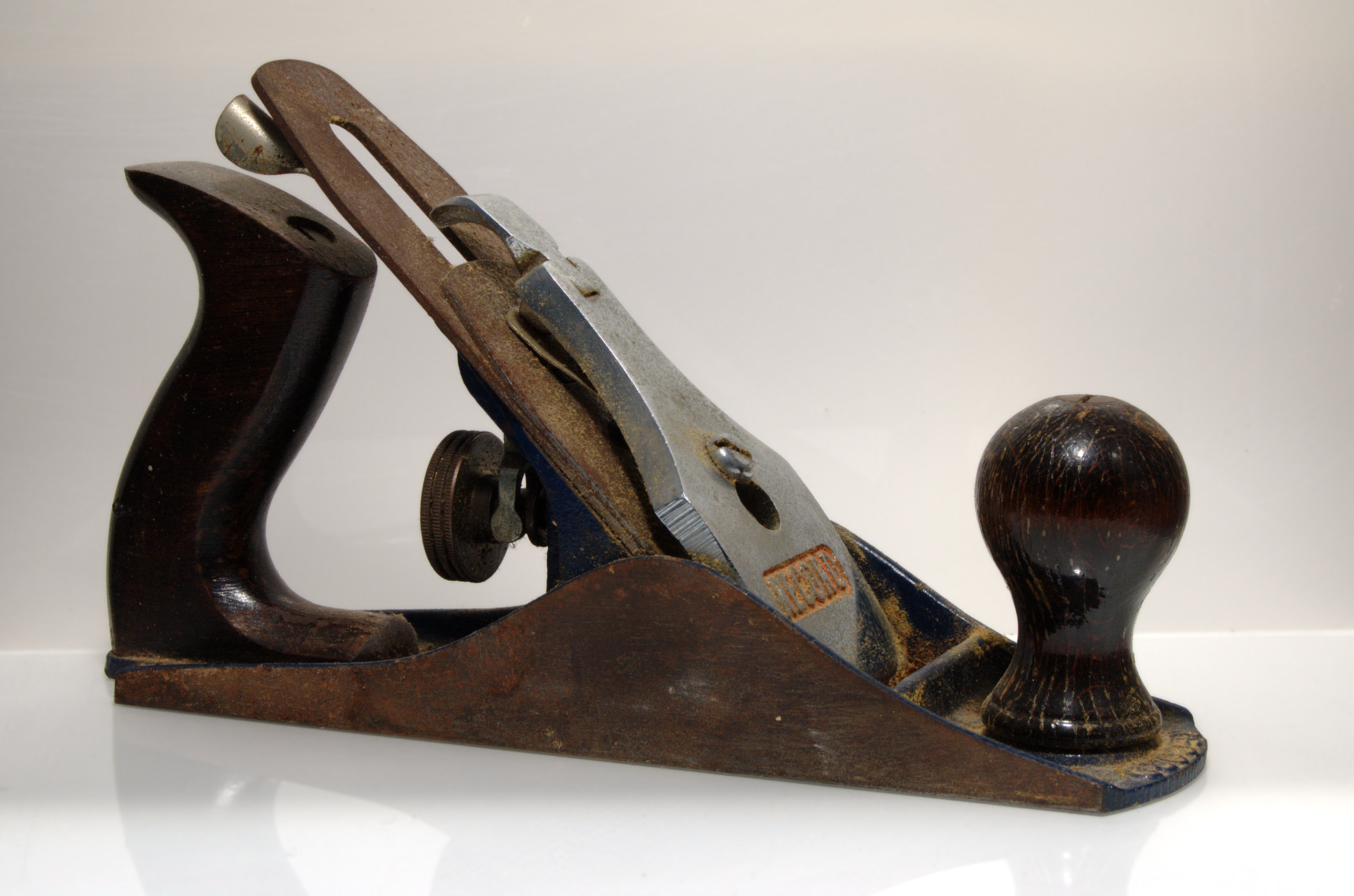 a Plain Wood Working Planer